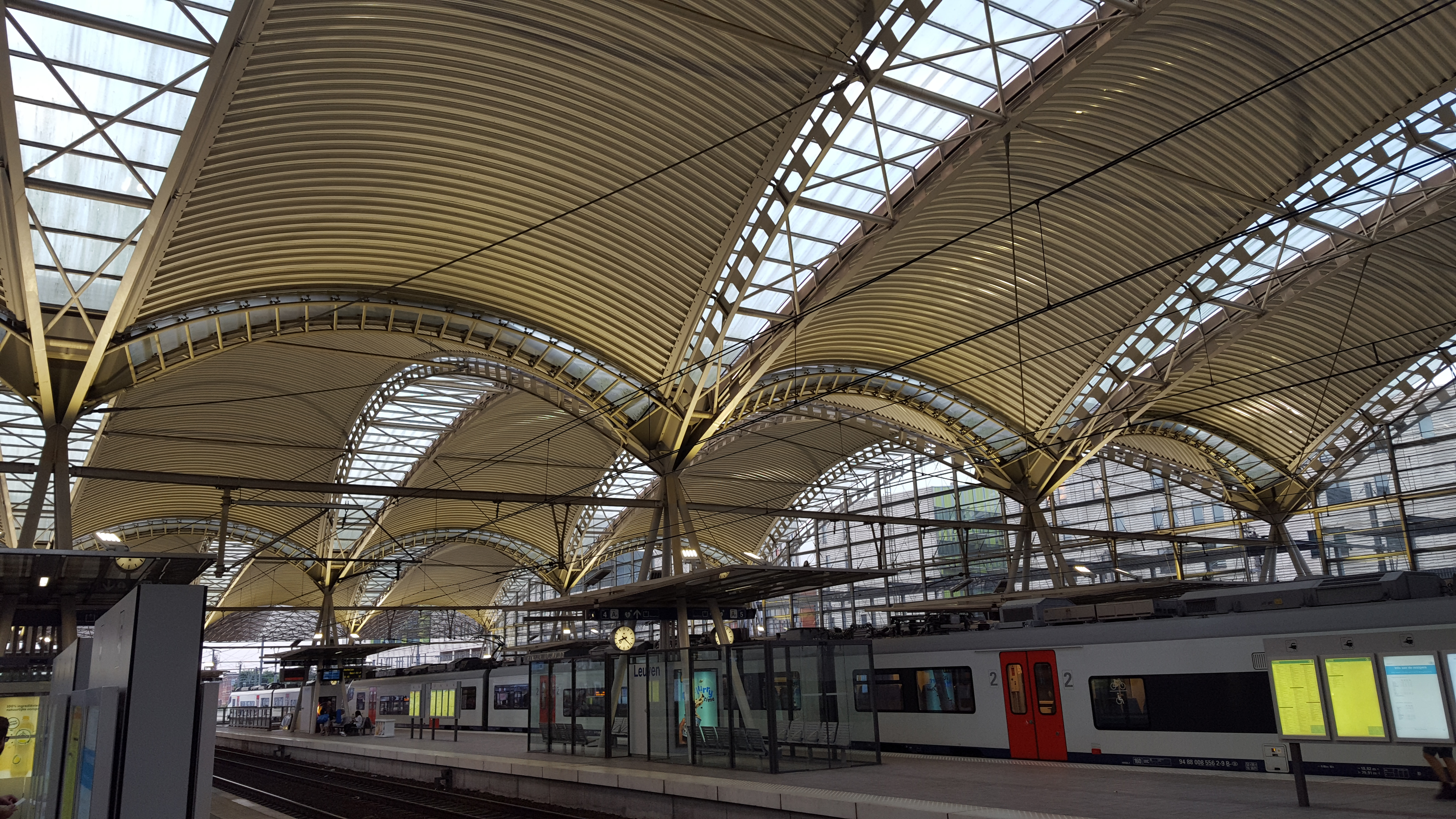 Leuven train station lighted, Belgium